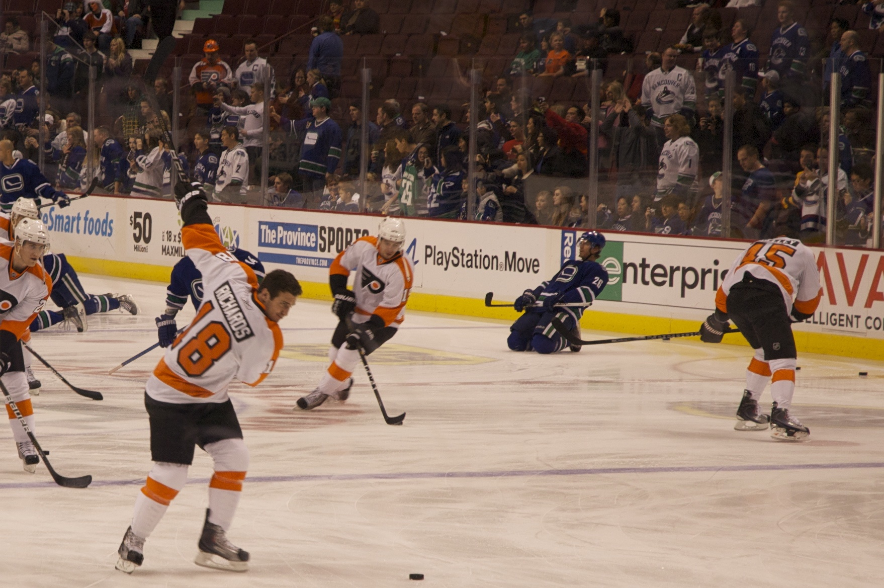 Vancouver Canucks host the Philadelphia Flyers in an epic NHL matchup to break a 20 year history of being unable to beat the Flyers on home turf.